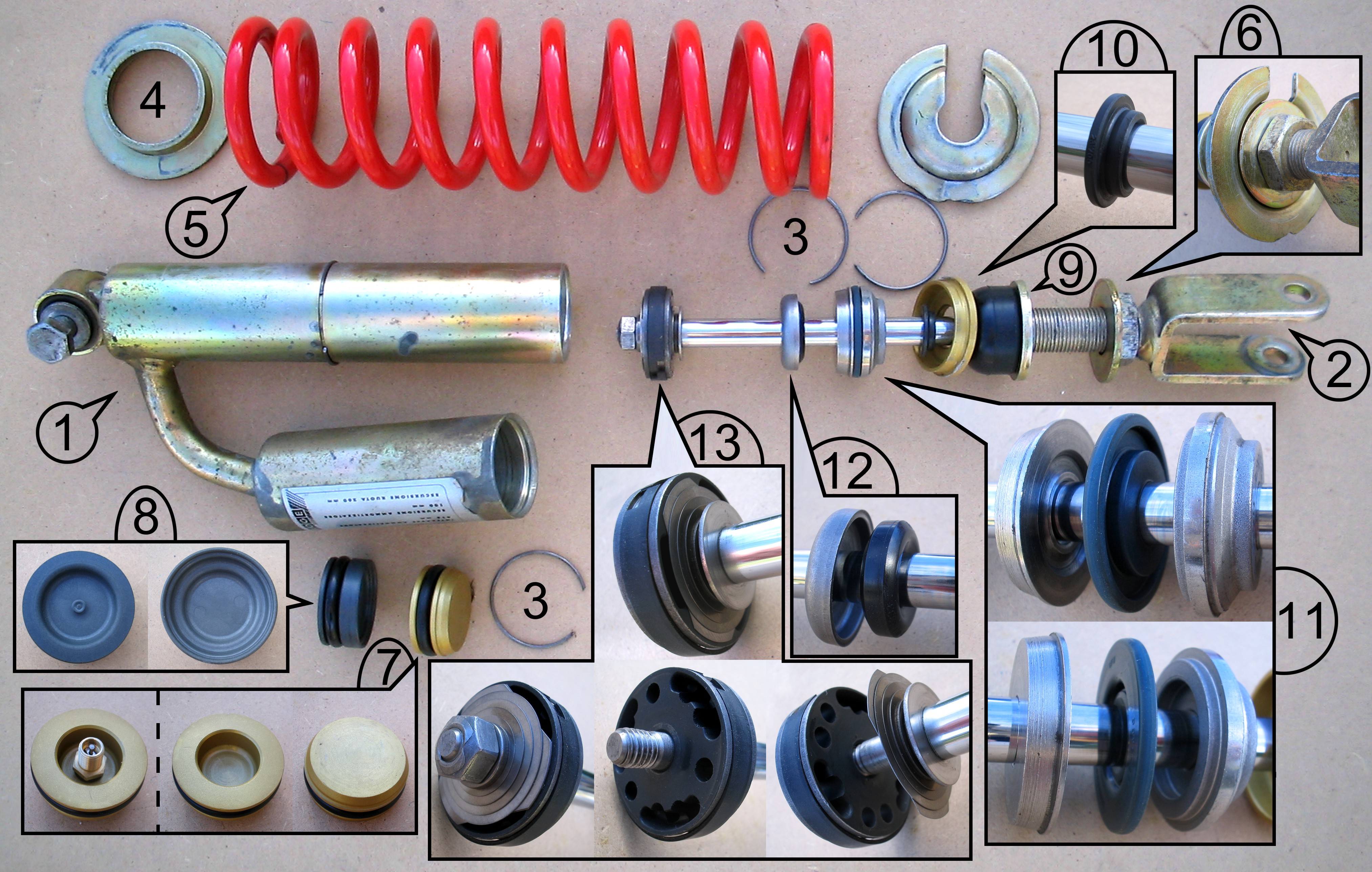 Absorber with gas tank connected rigidly, compared to most shock absorbers. It uses a diaphragm instead of a membrane, and does not contain a control valve for expansion of the pneumatic chamber. Description: 1) Sheath gas tank and 2) Stem 3) snap rings 4) Plate bearing spring 5) Spring 6) End cap and preload adjustment 7) Cap gas, either in the gas valve is not in the version with the gas valve (inverted profile) 8) Diaphragm Mobile 9) Pad switch (compression) 10) Wiper 11) A seal assembly, oil seal oil seal and bases and closing damper 12) Buffer Buffer or negative limit switch (extension) 13) Piston with piston ring and strip / sliding